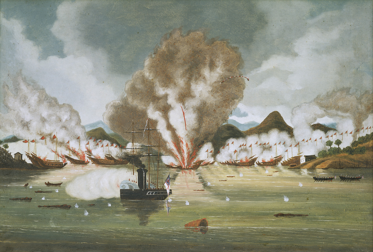 Destruction of Chuiapoo's Pirate Fleet, 30 September 1849, by Nam-Sing Medium oil on canvas Measurements H 30.5 x W 45.5 cm Accession number BHC0632 Painting was commissioned by Dugald McEwan the Assistant Surgeon of HMS ‘'Hastings'’.